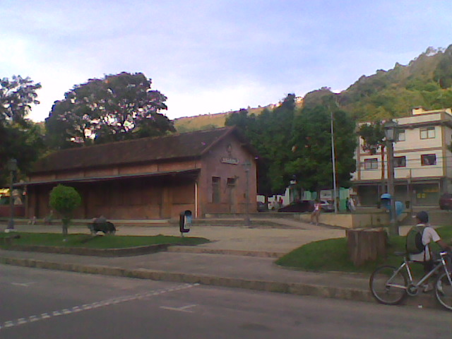 Estação Nogueira, Petrópolis, RJ, Brazil